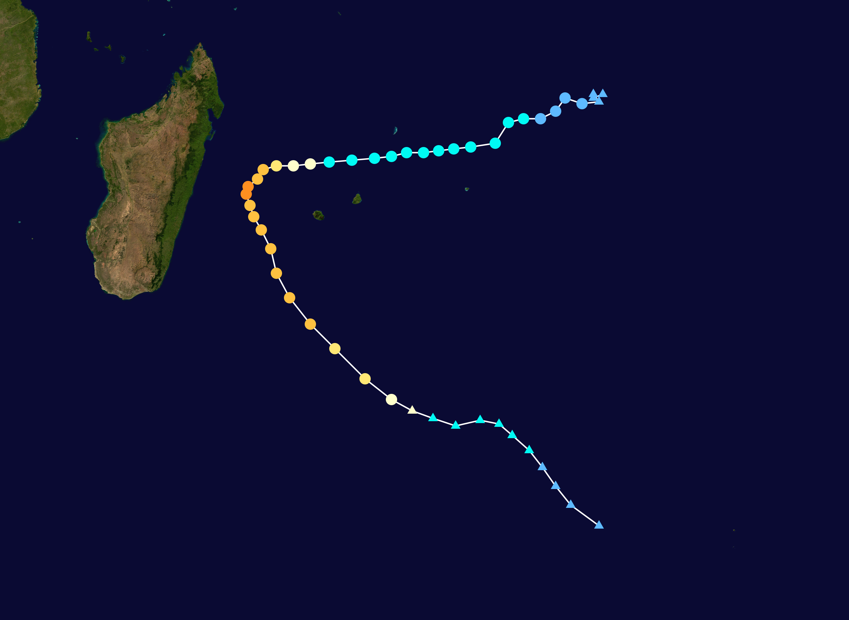 Track map of Intense Tropical Cyclone Gael of the 2008-09 South West Indian Ocean cyclone season. The points show the location of the storm at 6-hour intervals. The colour represents the storm's maximum sustained wind speeds as classified in the Saffir–Simpson scale (see below), and the shape of the data points represent the nature of the storm, according to the legend below. Saffir–Simpson scale Tropical depression≤38 mph≤62 km/h Category 3111–129 mph178–208 km/h Tropical storm39–73 mph63–118 km/h Category 4130–156 mph209–251 km/h Category 174–95 mph119–153 km/h Category 5≥157 mph≥252 km/h Category 296–110 mph154–177 km/h Unknown Storm type Tropical cyclone Subtropical cyclone Extratropical cyclone / Remnant low / Tropical disturbance / Monsoon depression